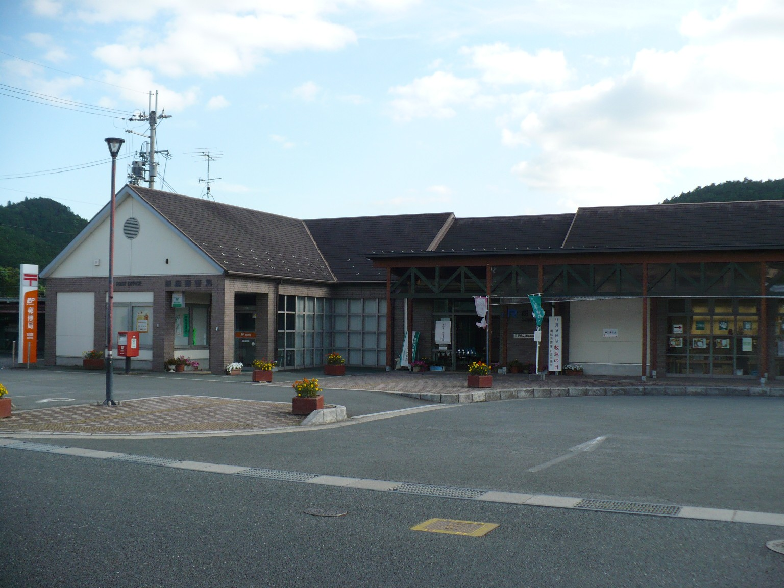 Goma station of JR West San-in mainline in right side, Goma post office of Japan post in left side, Nantan, Kyoto, Japan